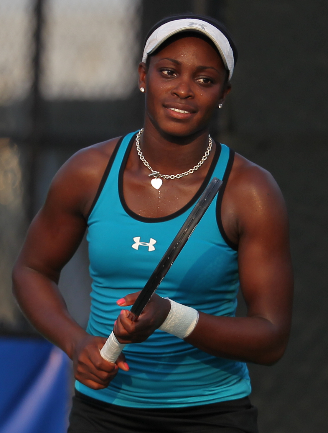 Citi Open Tennis July 29, 2011